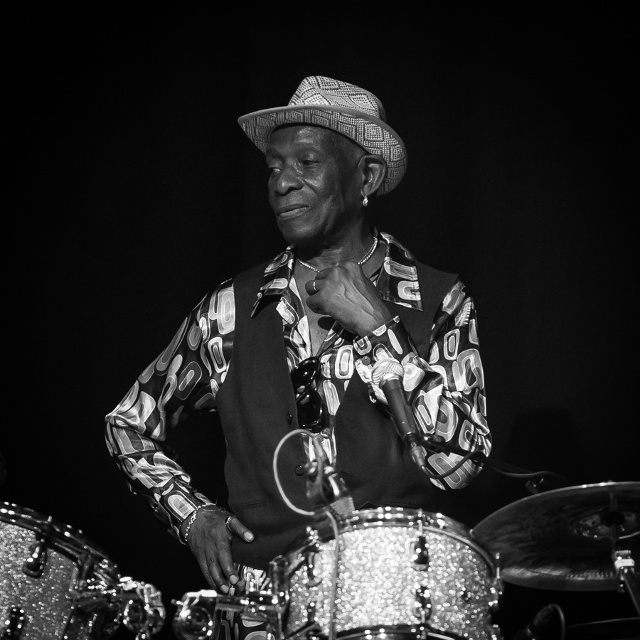 Tony Allen performs at Rockefeller during Oslo Jazzfestival 2015.